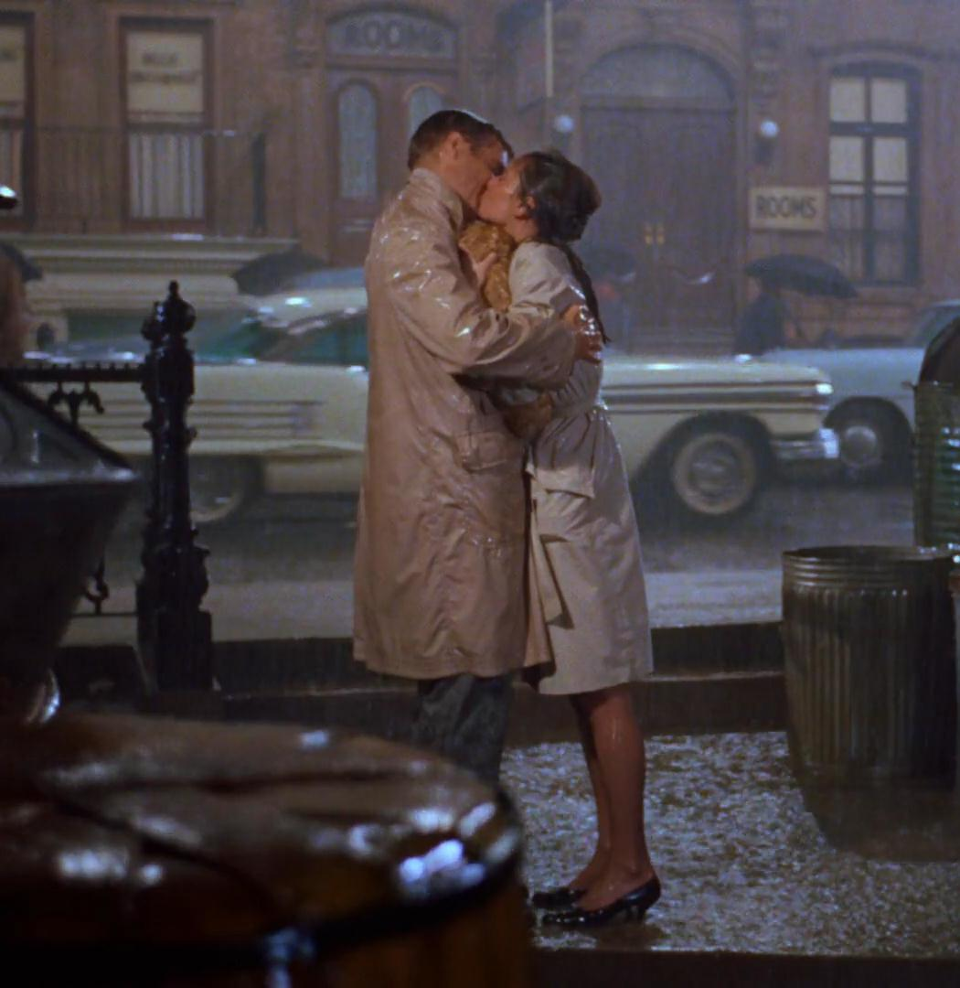 Kiss between Audrey Hepburn and George Peppard at Breakfast at Tiffany's.